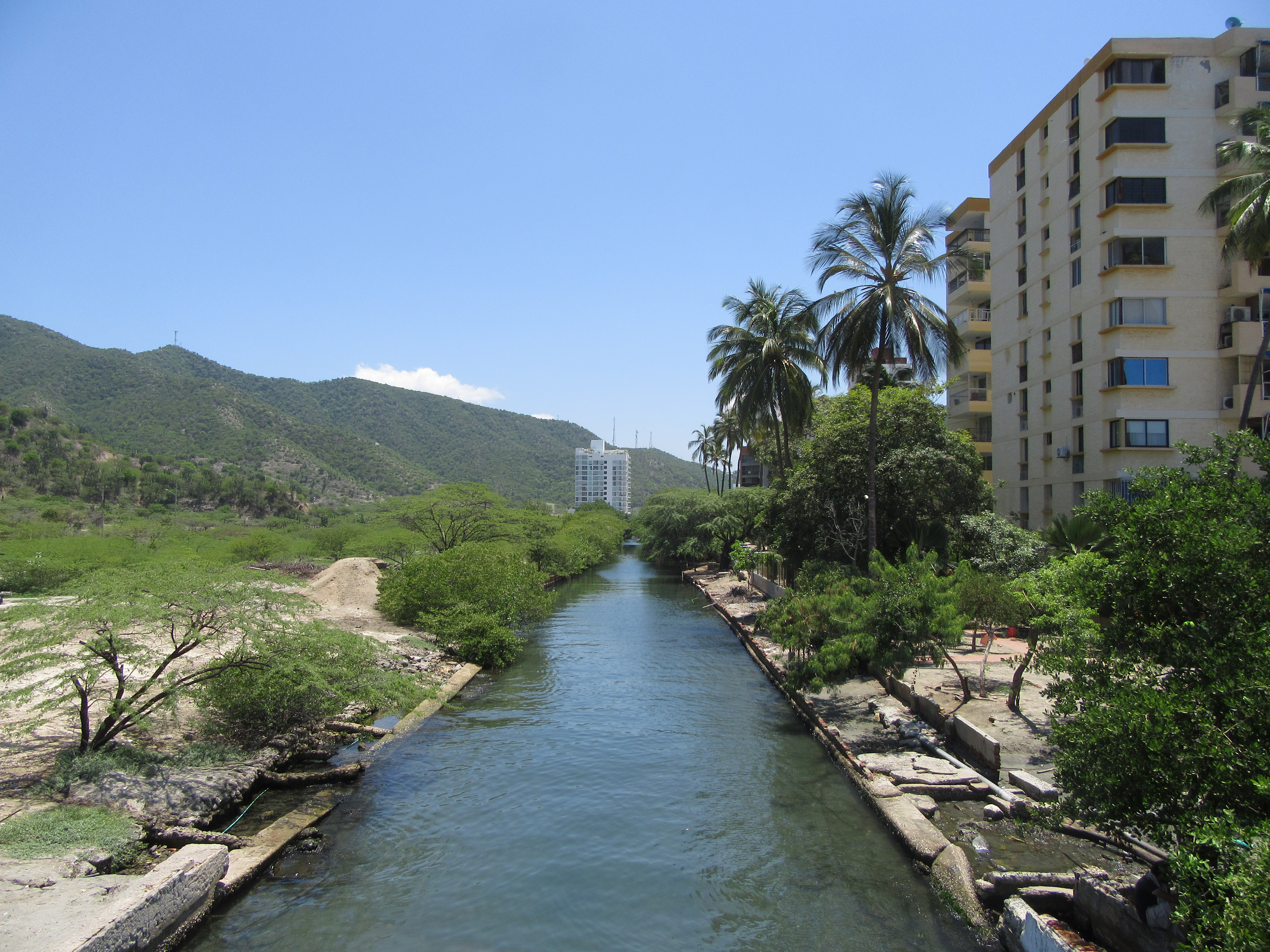 El Rodadero